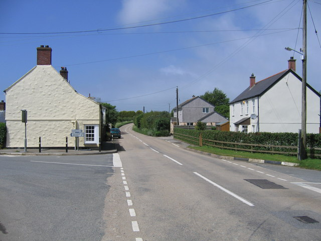 Fraddam Village looking west. Fraddam is a small village clustered around a crossroads. This view is looking west from the crossroads.vi